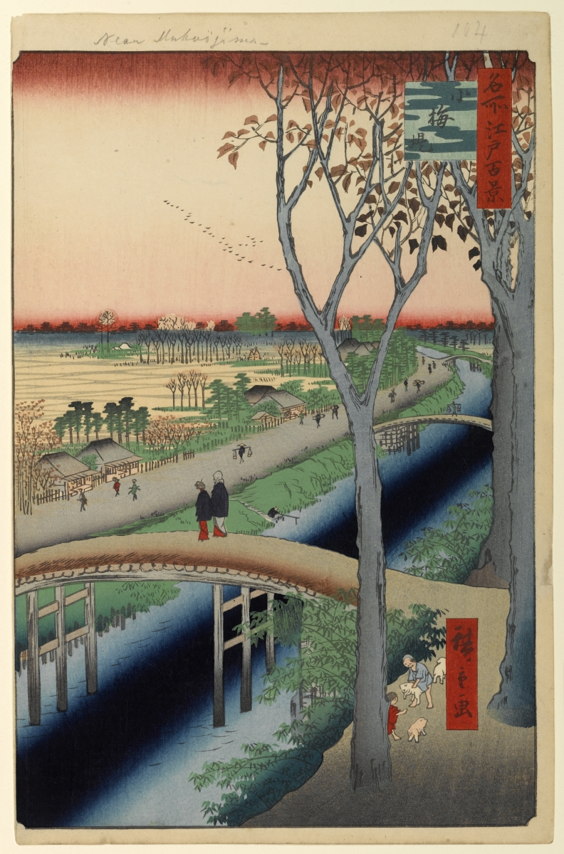 Part of the series One Hundred Famous Views of Edo, no. 104, part 4: Winter.